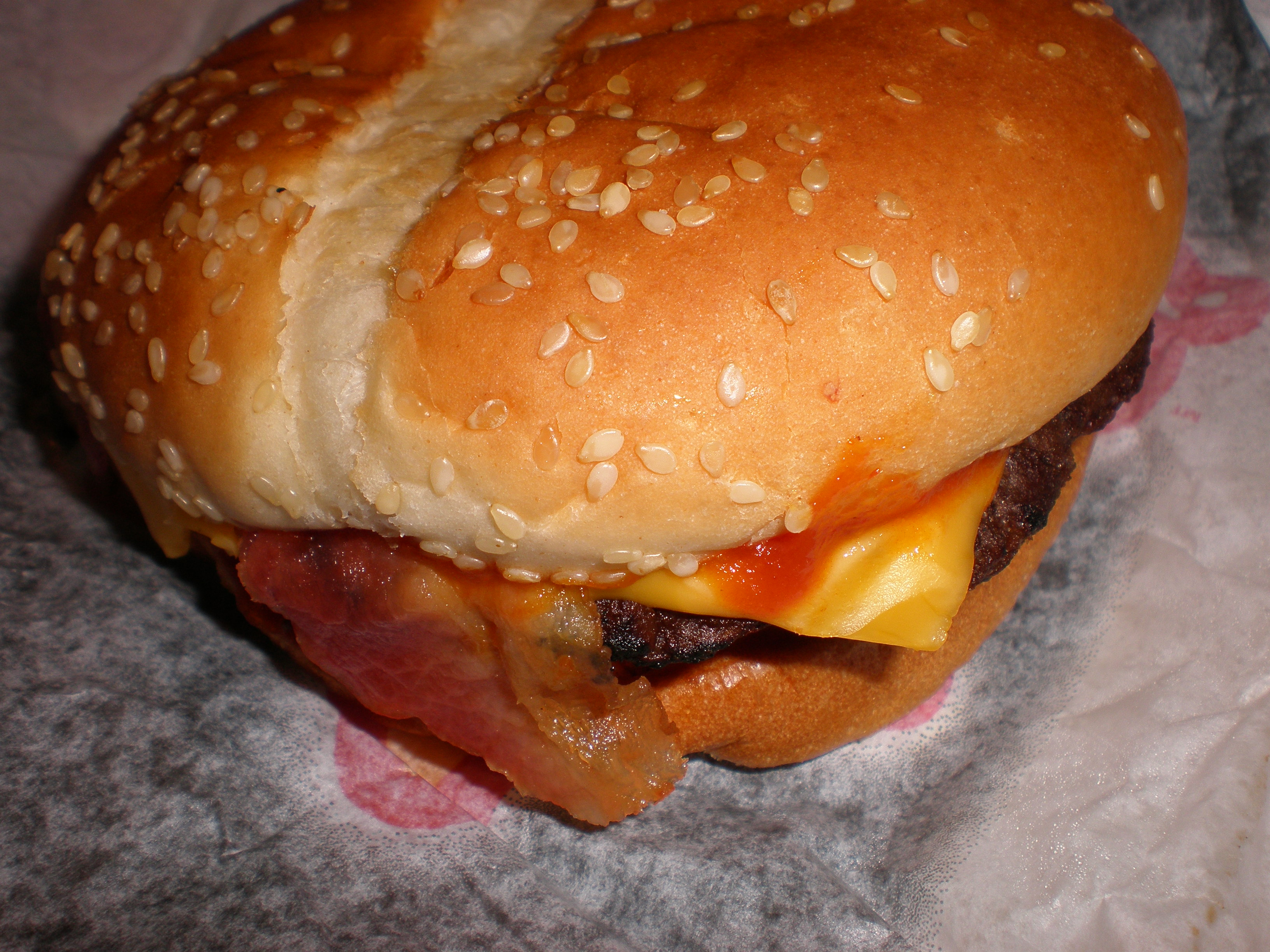 A Carl's Jr. Western bacon cheeseburger